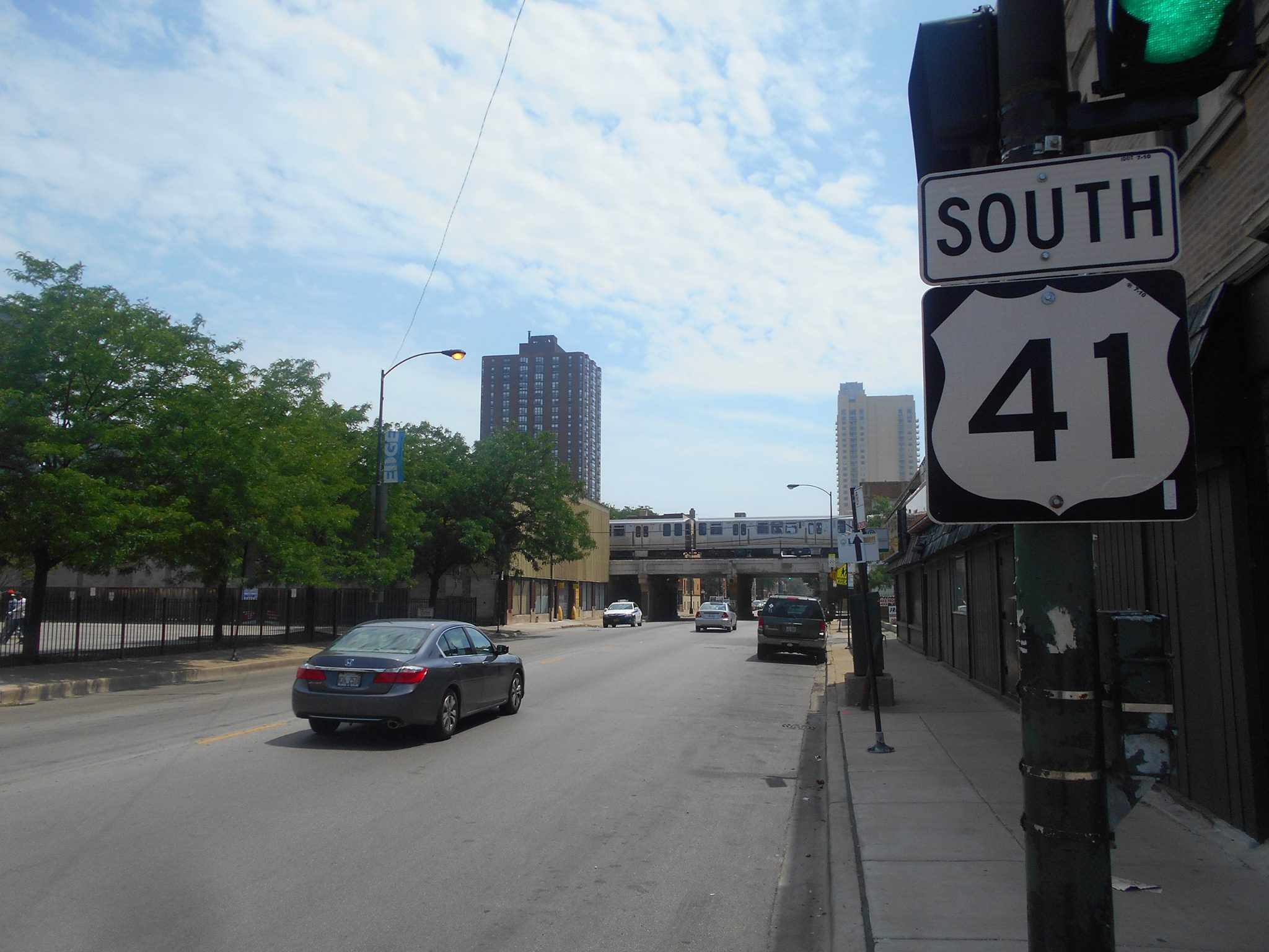 U.S. Route 41 southbound from the junction with U.S. Route 14 in Chicago, Illinois. Foster Avenue at Broadway looking east.